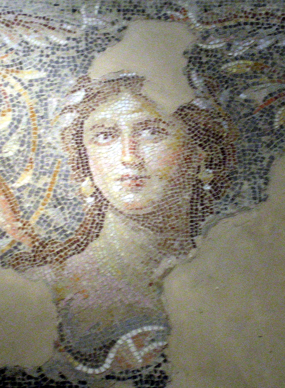 "Mona Lisa of the Galilee", ancient mosaic in Tzippori (Sepphoris). Larger version: File:Mona Lisa of the Galilee large.jpg.